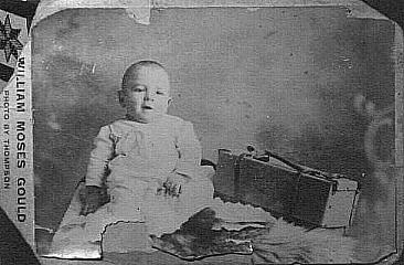 photo of William Helms, the Iron Mountain Baby with valise